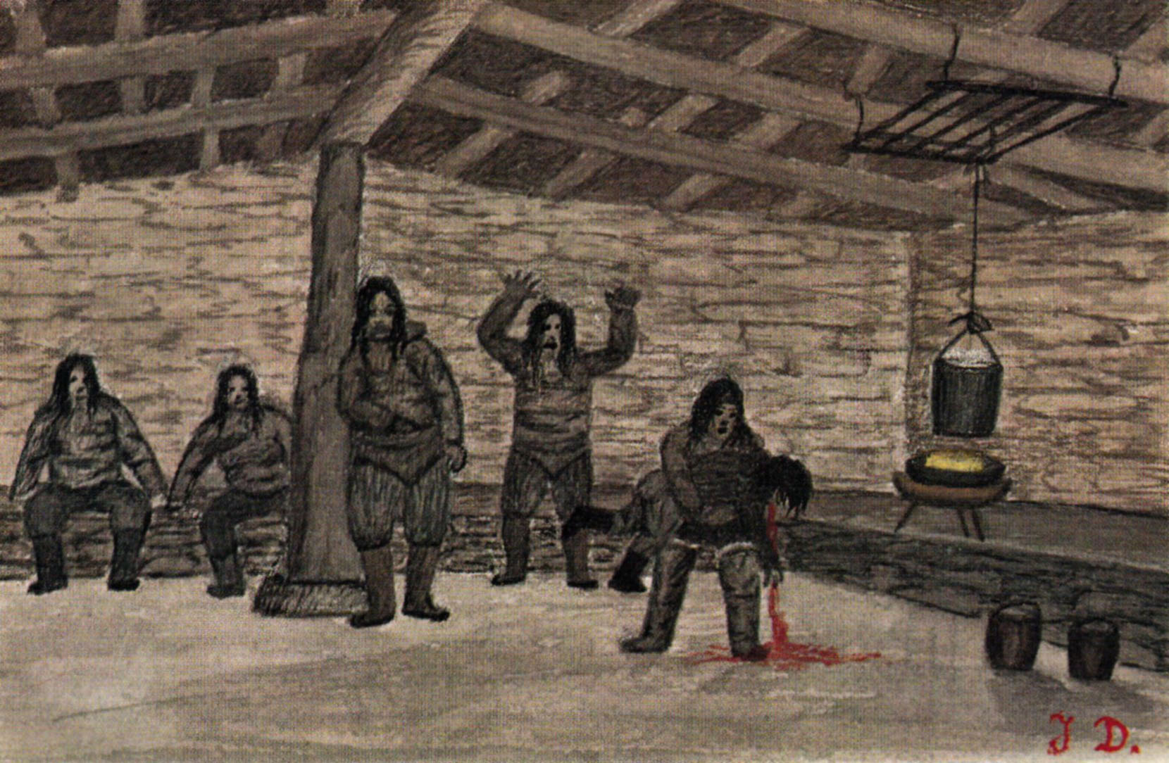 Jakob Danielsen - 10 Kaassassuk embraces girl